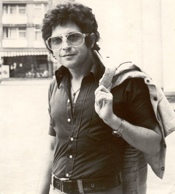 Krzysztof Cwynar